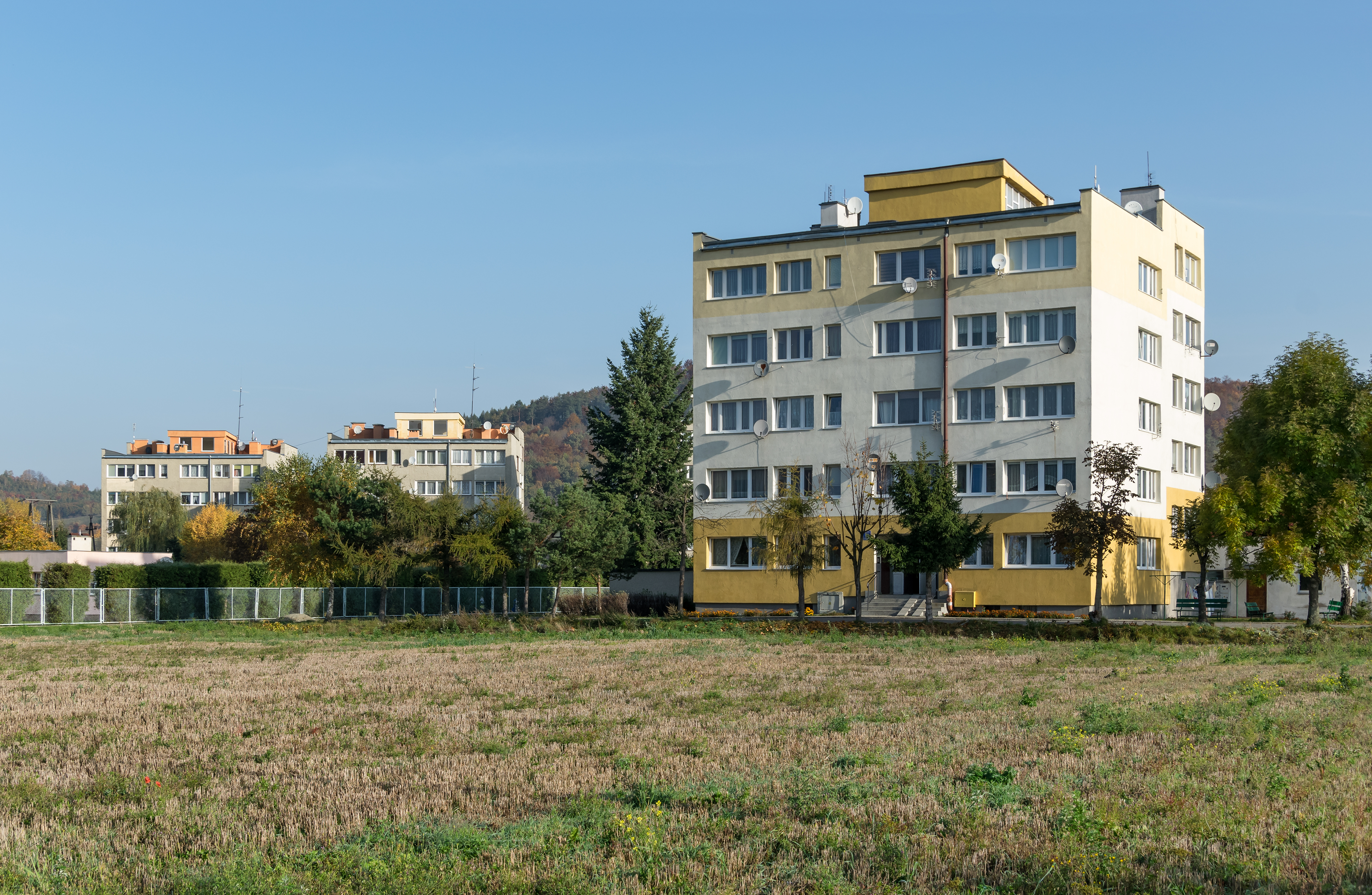 Residential buildings in Ołdrzychowice Kłodzkie